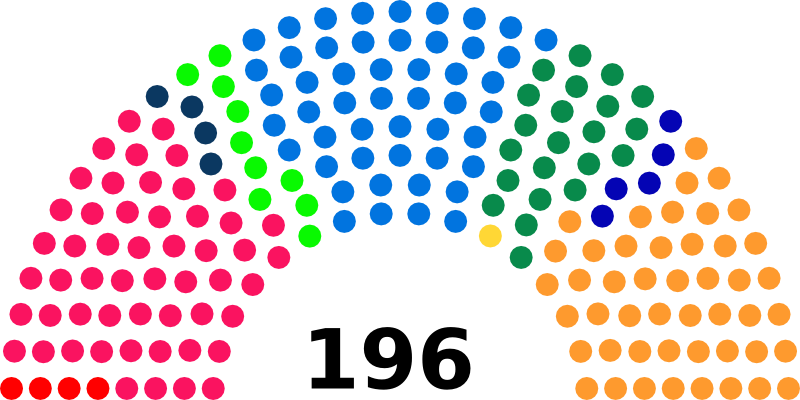 Seats diagramme of Swiss National Council (1955)